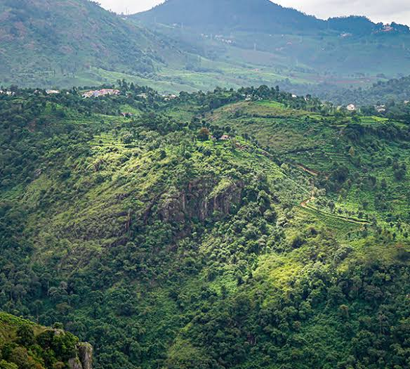 Map of southern India showing location of Kolli Hills and Kalrayan Hills based on public domain U.S. Central Intelligence Agency map of India